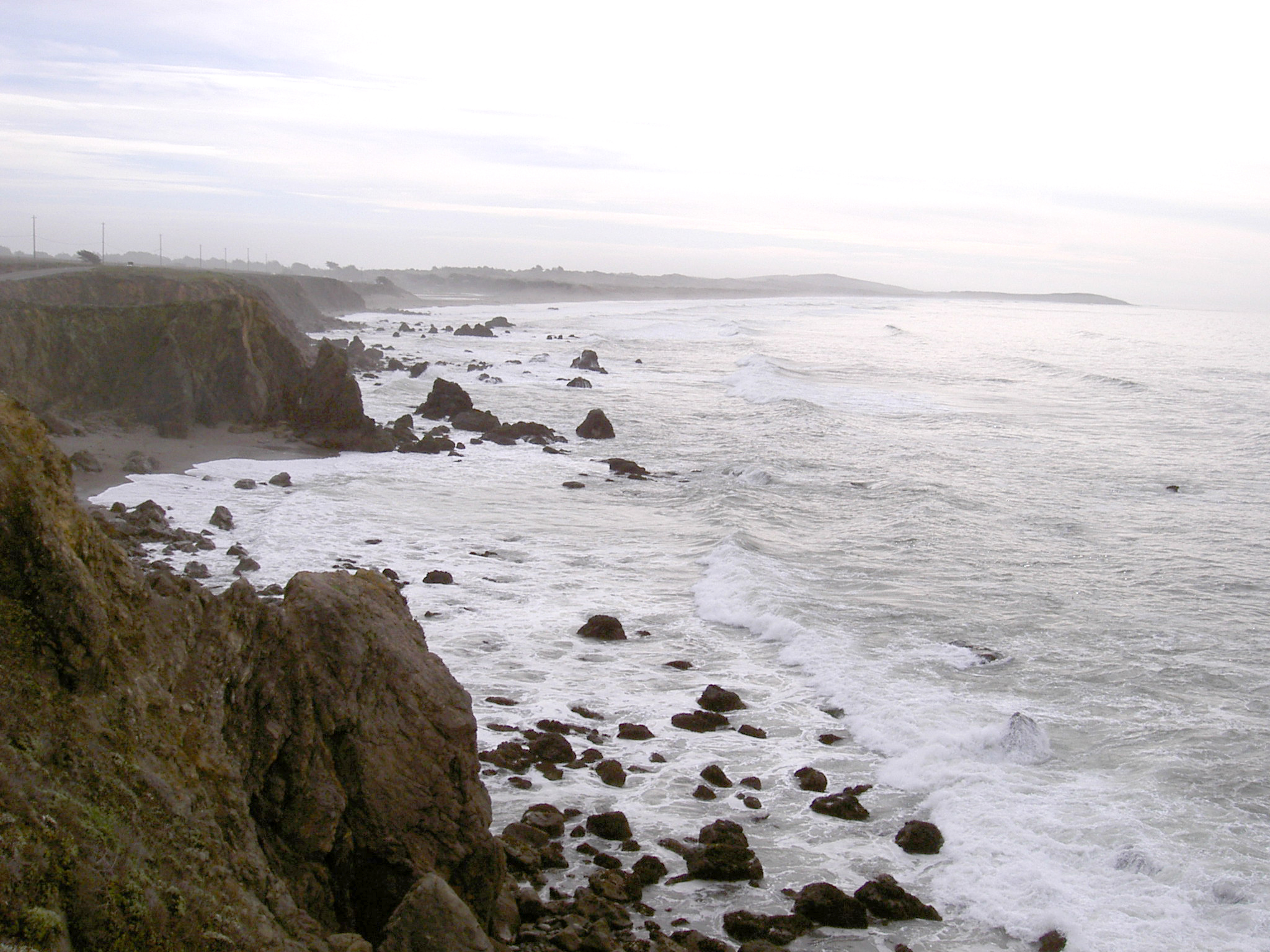 Pacific coast of Sonoma County, California, looking south from the Arched Rock Beach parking lot of Sonoma Coast State Beach toward Bodega Head